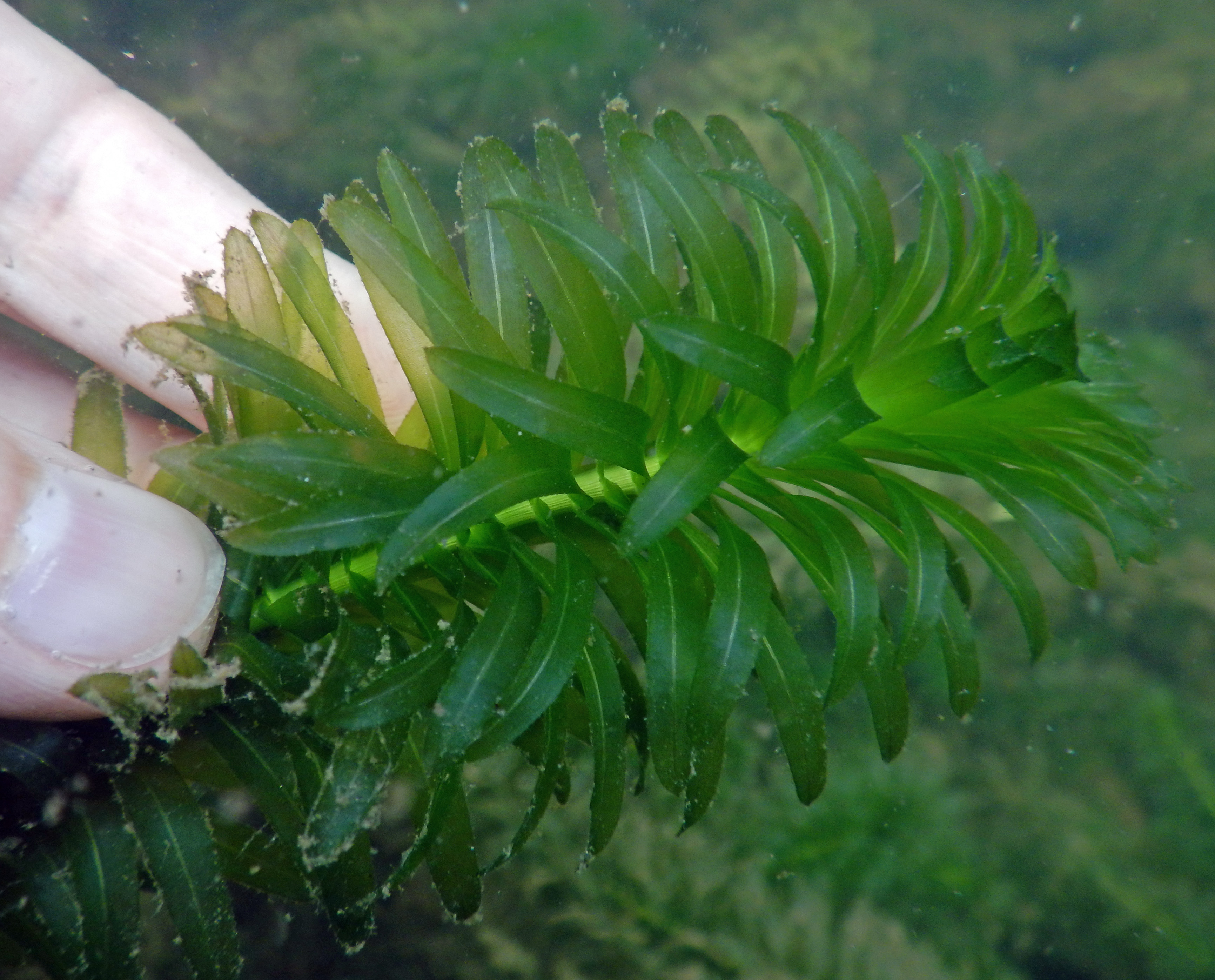 biological invasion of the fishing pond of Saint-Nolf in Morbihan (near Condat stream, near a football field and near a railroad (access of the pont by the Departmental road 135) By far, this plant evokes waterweed Elodea, but it's Egeria densa.